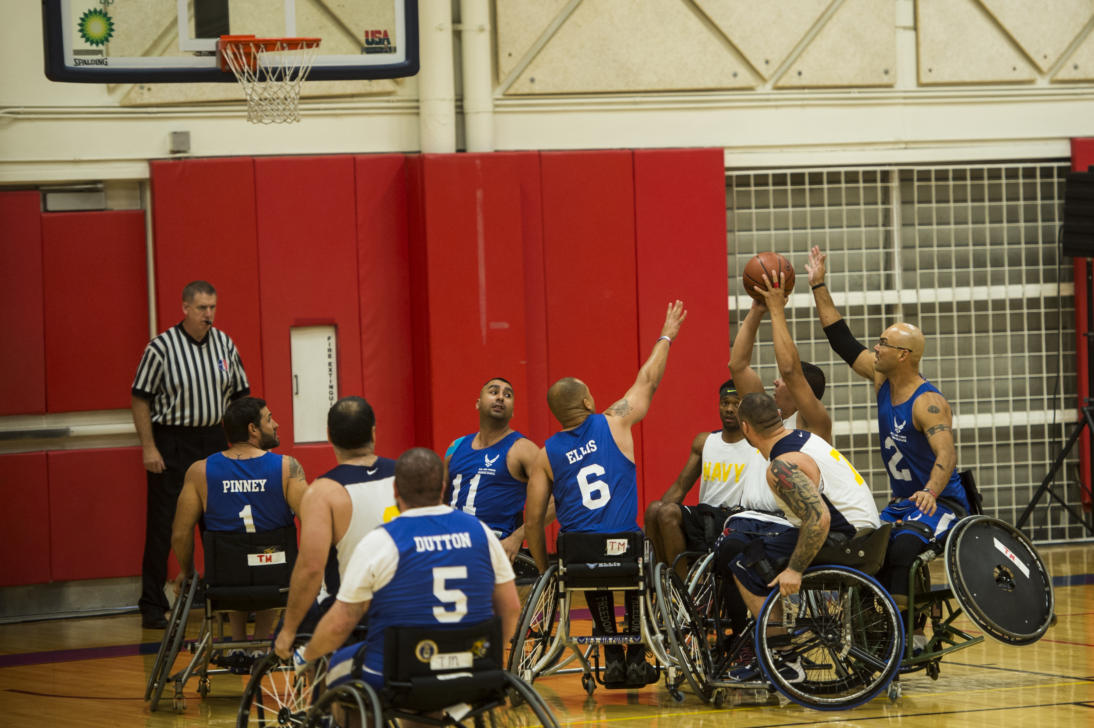 Air Force athletes score a point in wheelchair basketball during the 2014 Warrior Games, Colorado Springs, Colo., Oct. 1. The Warrior Games consists of athletes from throughout the Department Of Defense, who compete in paralympic style events for their respective military branch. The goal of the games is to help highlight the limitless potential of warriors through competitive sports. (U.S. Air Force photo by Staff Sgt. Stephany Richards/ Released)